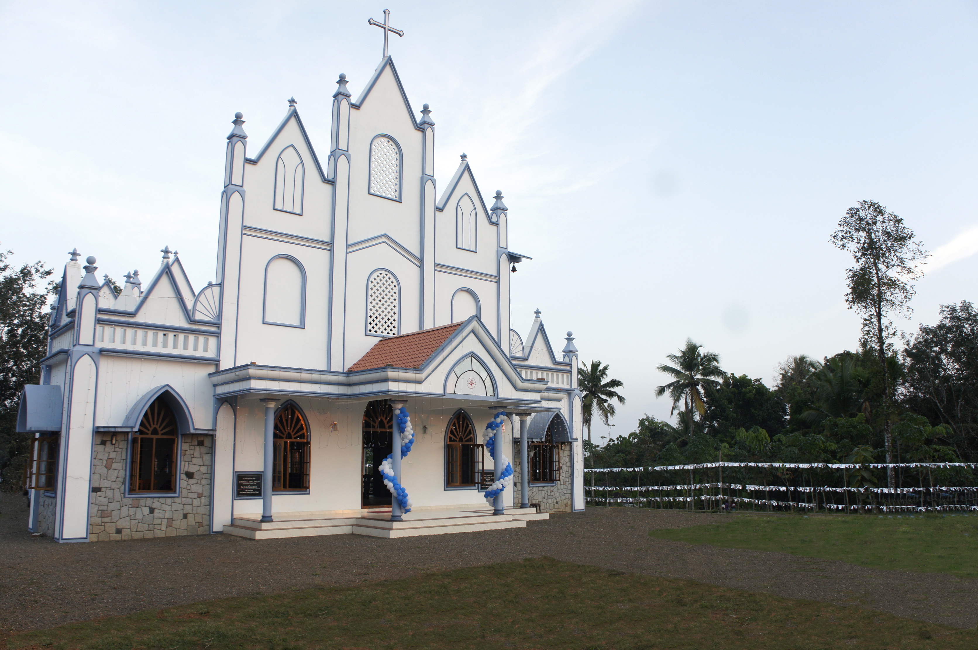 St. Peter's C.S.I Church is the first Christian church in Kangazha. It is established in the year 1864 by the C.M.S missionary, Rev. Henry Baker Junior, The Apostle of the hills. Now, the church is under the jurisdiction of the C.S.I Madhya Kerala Diocese.